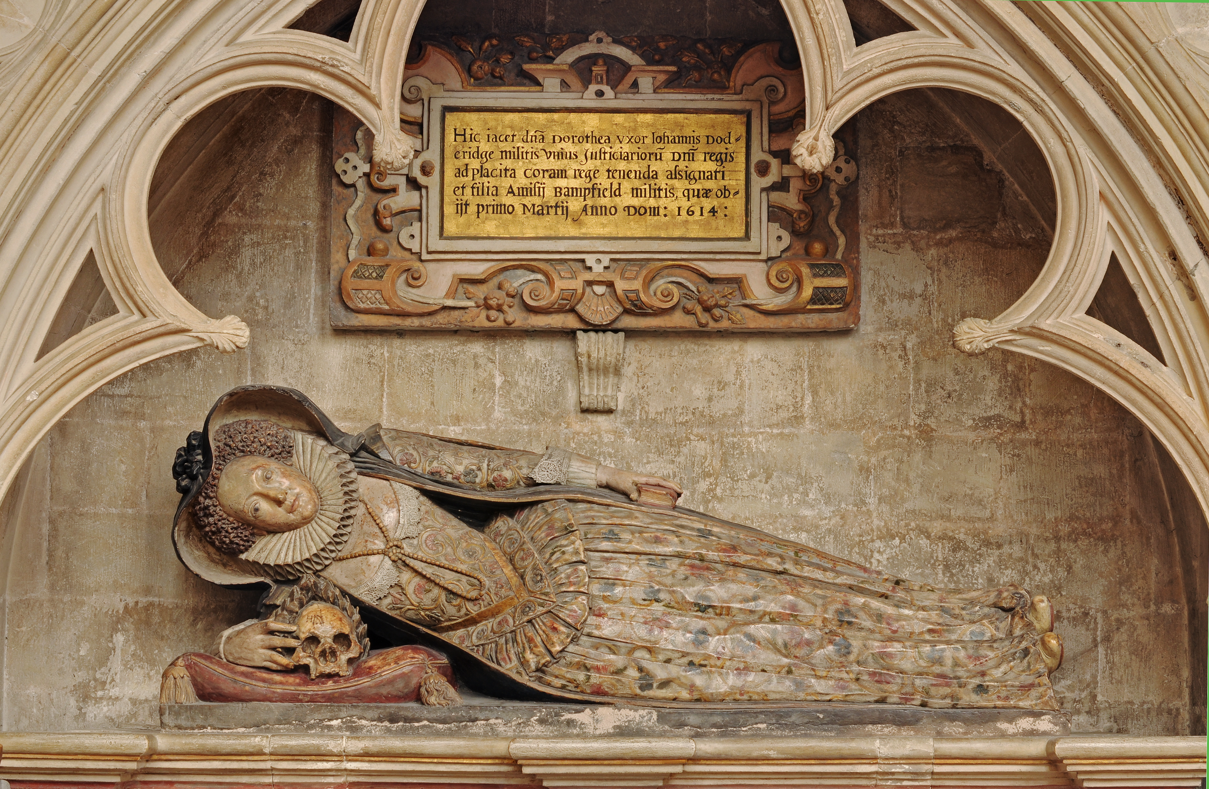 Effigy of Dorothy Bampfield (died 1 March 1614), the second wife of Sir John Doddridge (1555–1628), a Justice of the King's Bench, from her memorial on the north wall of the Lady Chapel of Exeter Cathedral, Exeter, England, UK. Bampfield was the daughter of Sir Amias Bampfield.